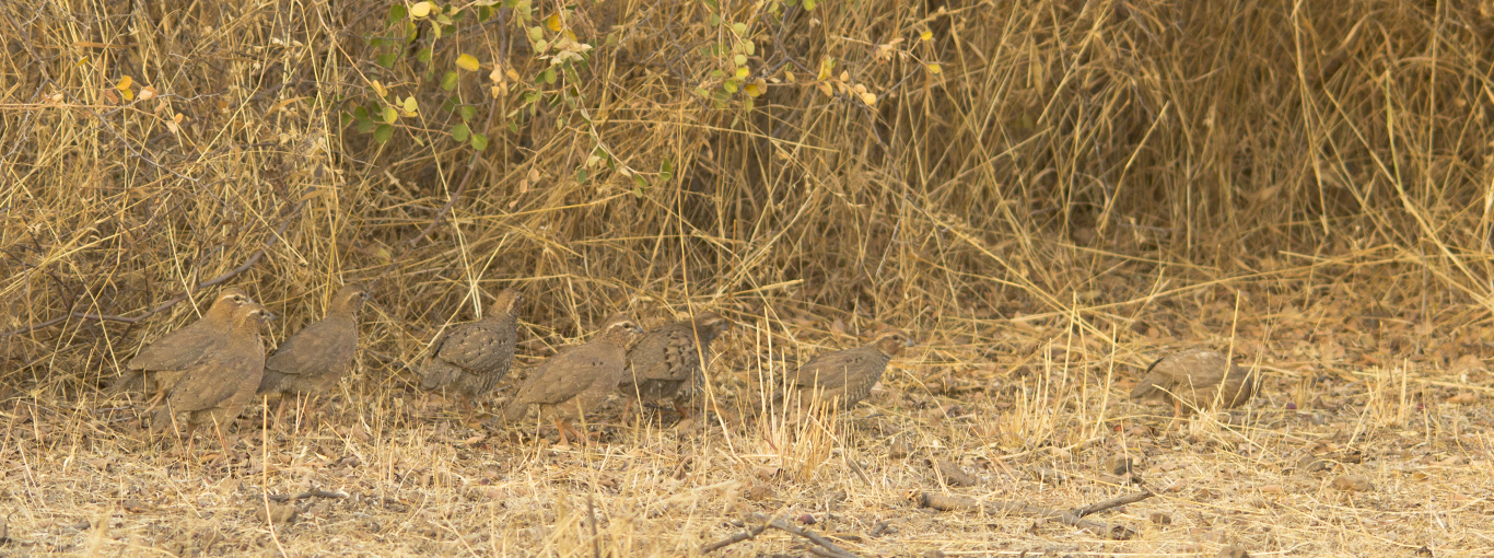 at Rajkot